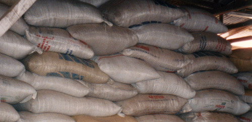 Green Coffee stacked in bags